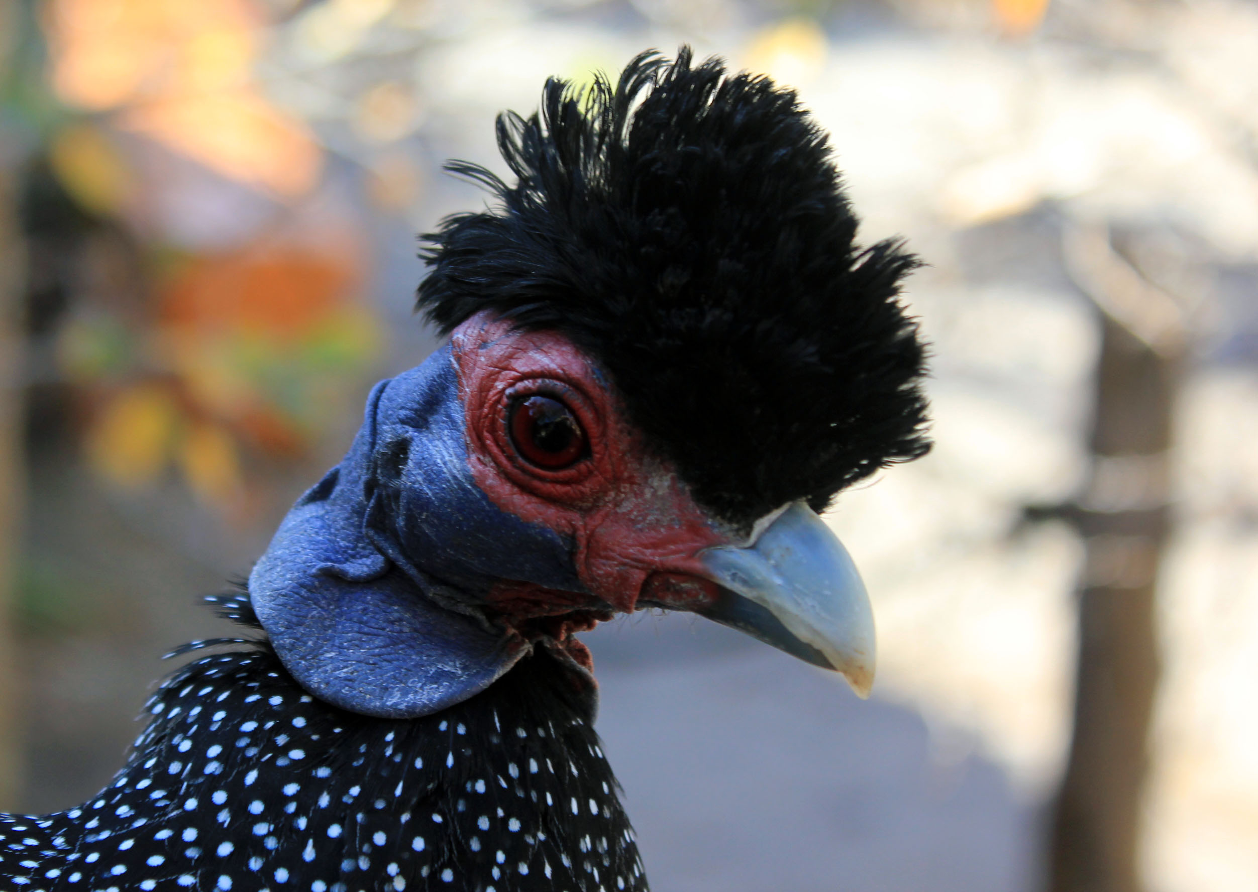 Our Fine Feathered Friends A bird of doom, not sure what species, kind of looks like a chicken to me.